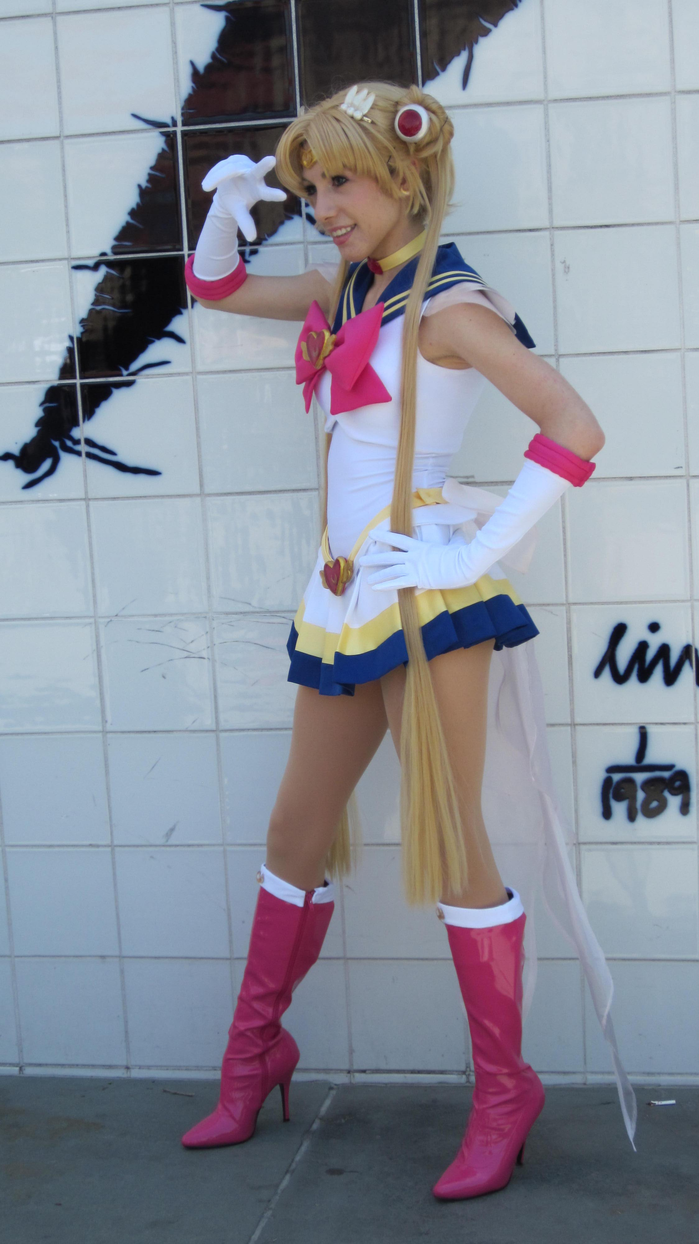 A cosplayers portraying Sailor Moon from Sailor Moon at FanimeCon in San Jose, California.